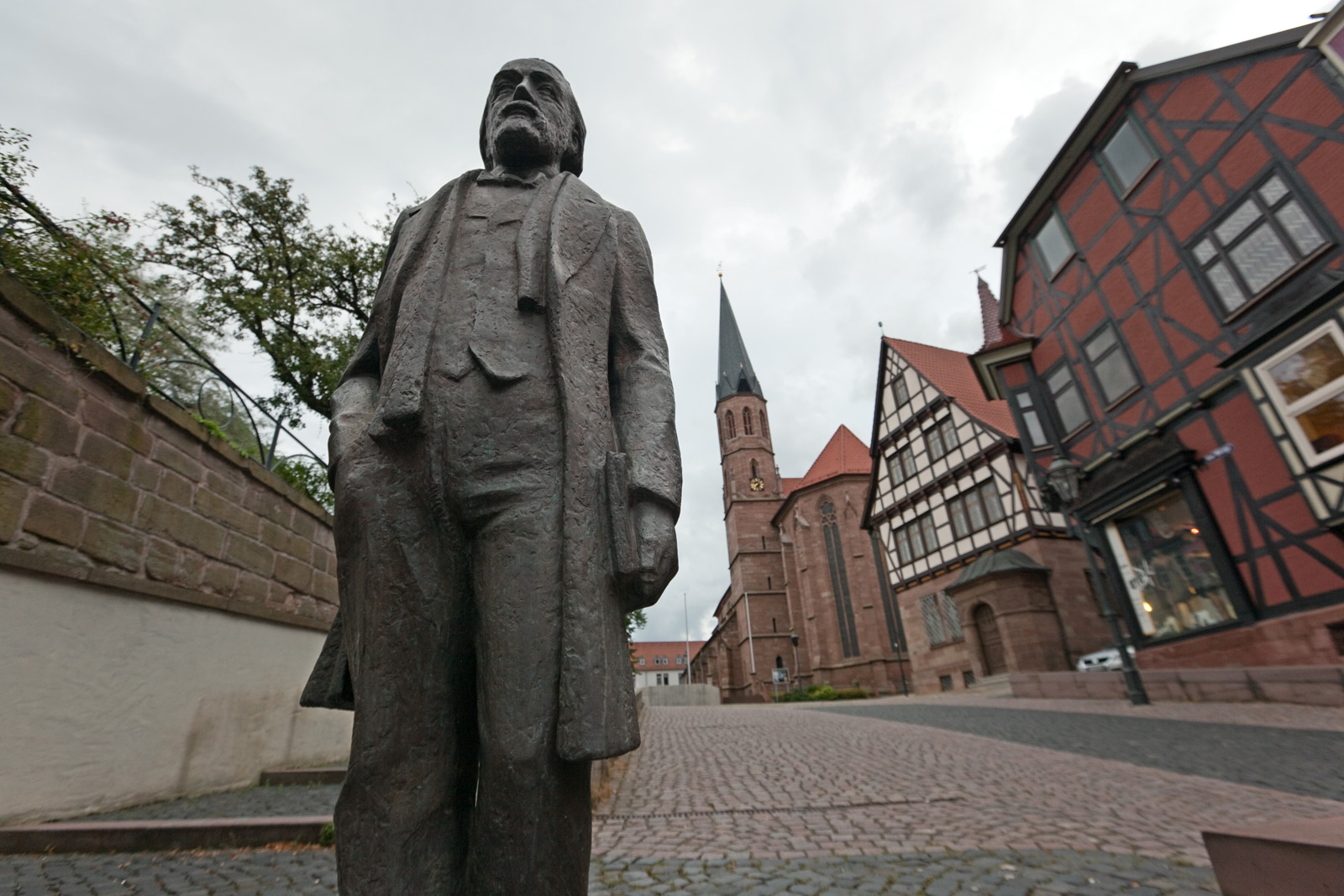 Bronze sculpture of Theodor Storm in Heiligenstadt. – The picture was first published in b/w in the book "Die Südharzreise" ("The South Harz Journey"), by SuKuLTuR, Berlin, in 2010. The entire book was released under CC by-nc-sa 3.0, all pictures have been re-licensed under CC by-sa, see user page for details. – Picture taken with a Canon EOS 5D Mark II.